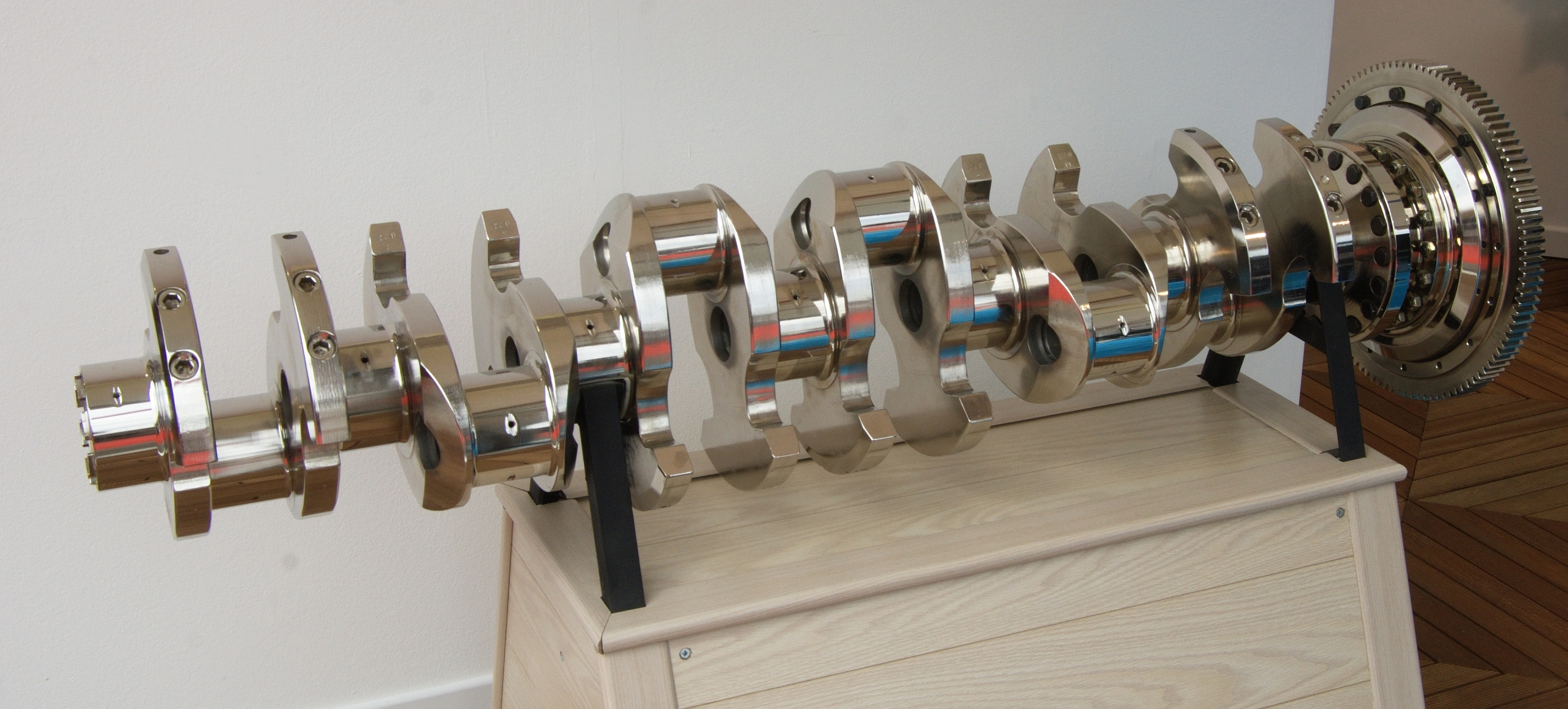 A marine motor stainless steel crankshaft